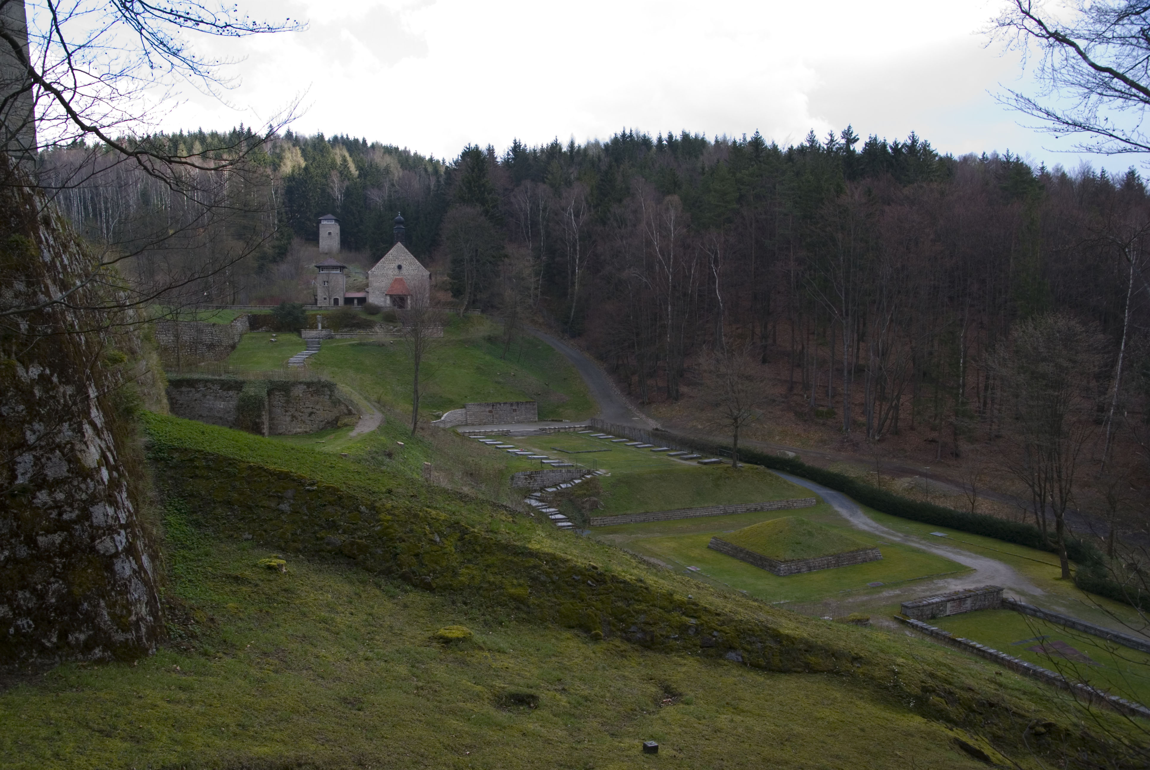 The concentration camp flossenbuerg in germany